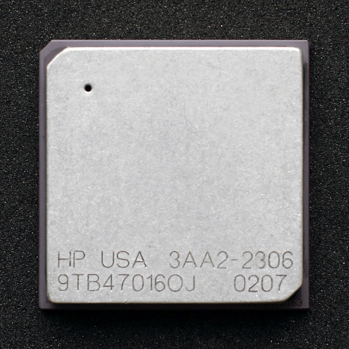 CPU Hewlett-Packard PA-8700